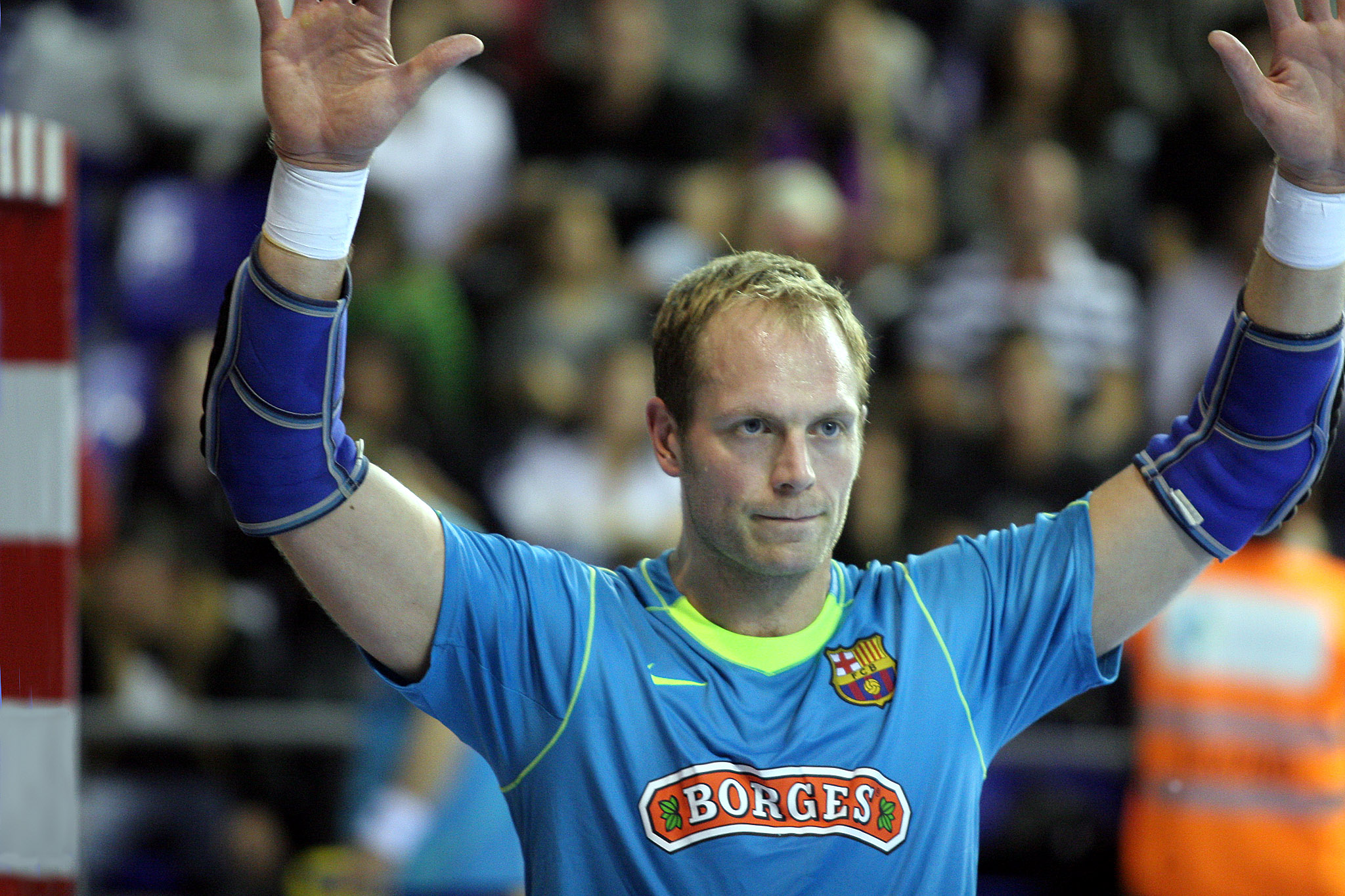 Kasper Hvidt, Danish handball player (goalkeeper) on October 12th, 2008 in Barcelona (Palau Blaugrana) prior the Champions League game FC Barcelona Borges - H.C. Metalurg Skopje